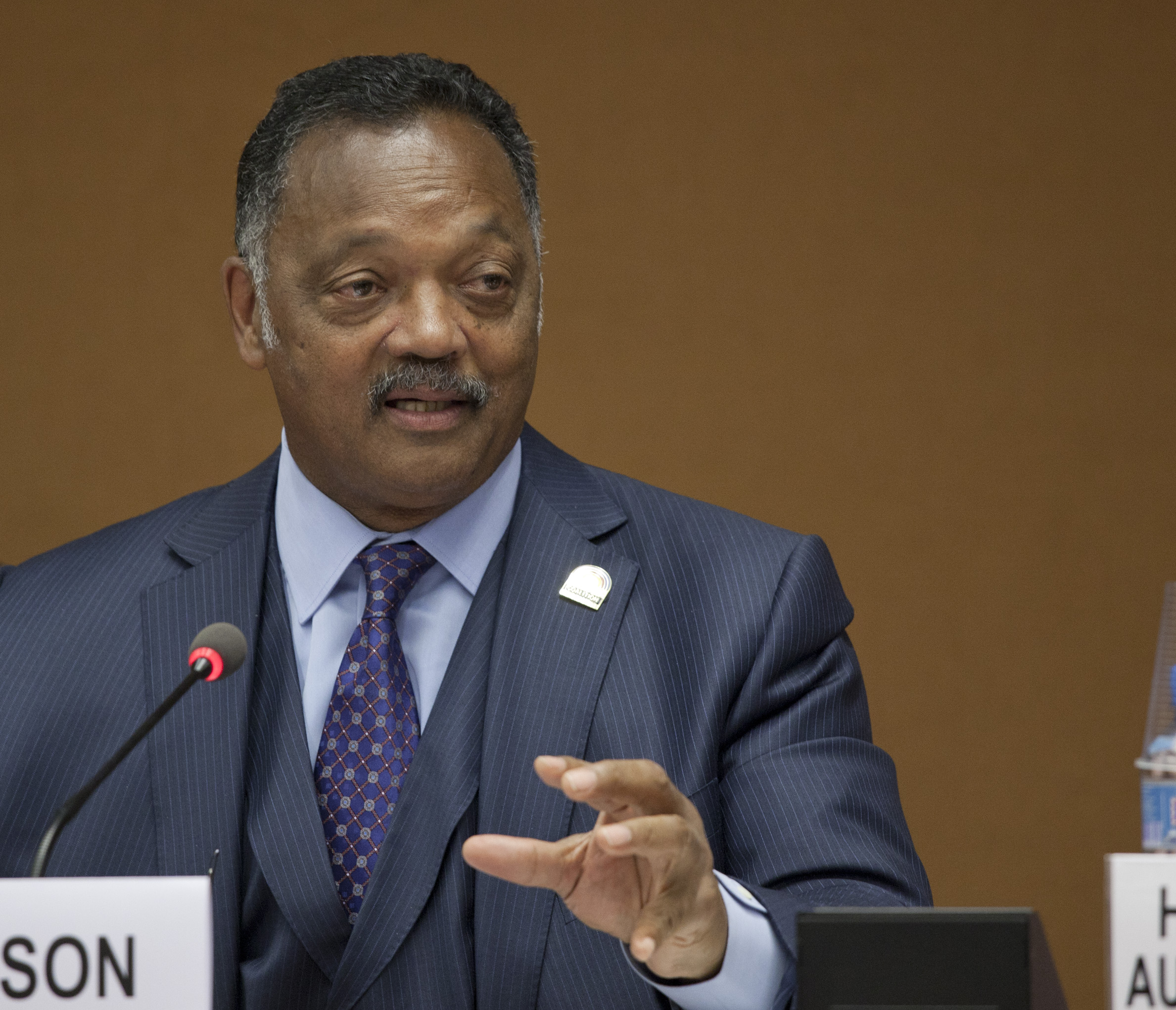 Reverend Jesse Jackson spoke at the UN today for the International Day for the Elimination of Racial Discrimination. In his remarks, Reverend Jackson highlighted the importance of freedom of expression in the fight for human rights and to combat racial discrimination. U.S. Mission photo by Eric Bridiers